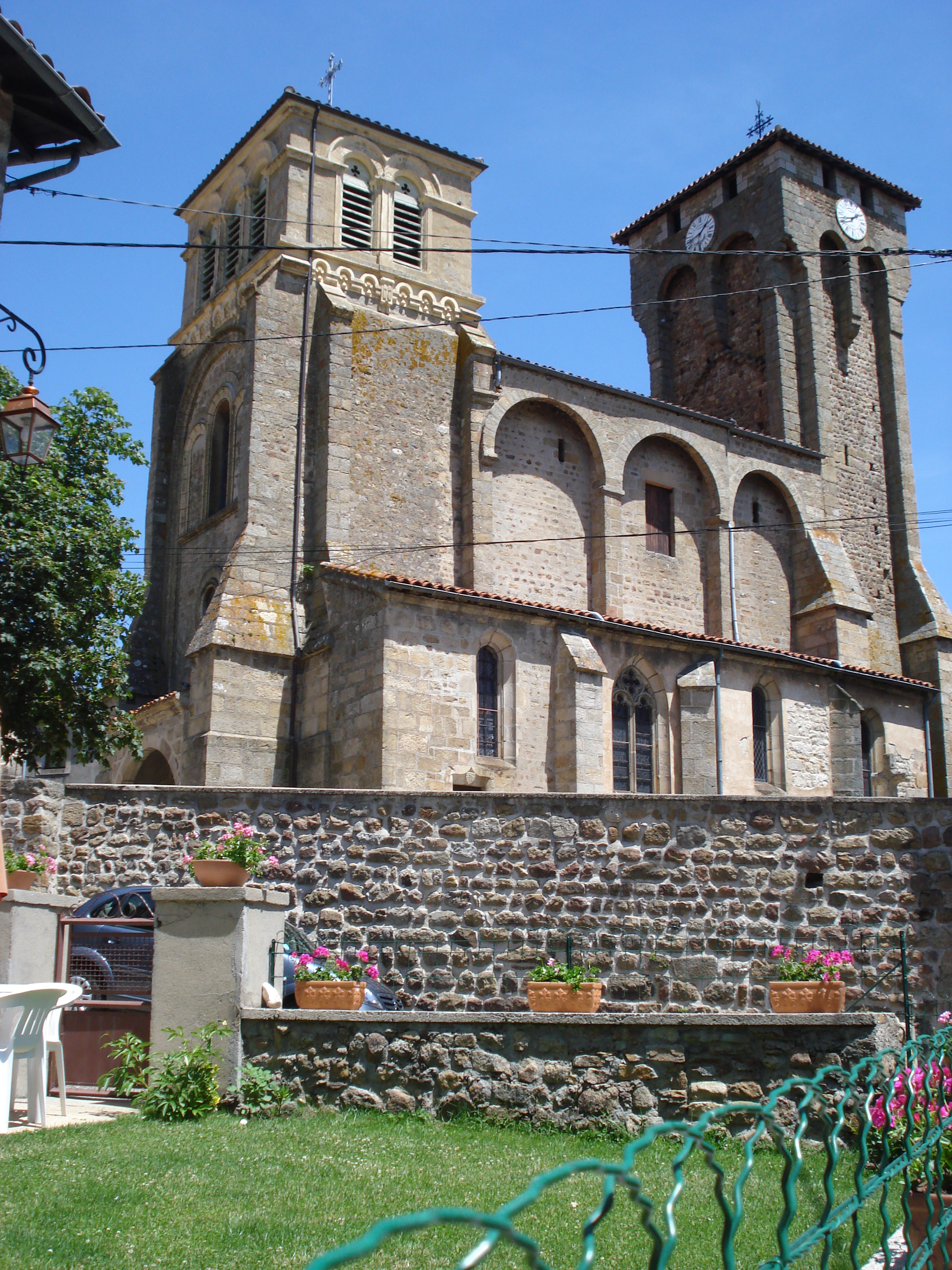 Marols (Loire, Fr), fortified church.